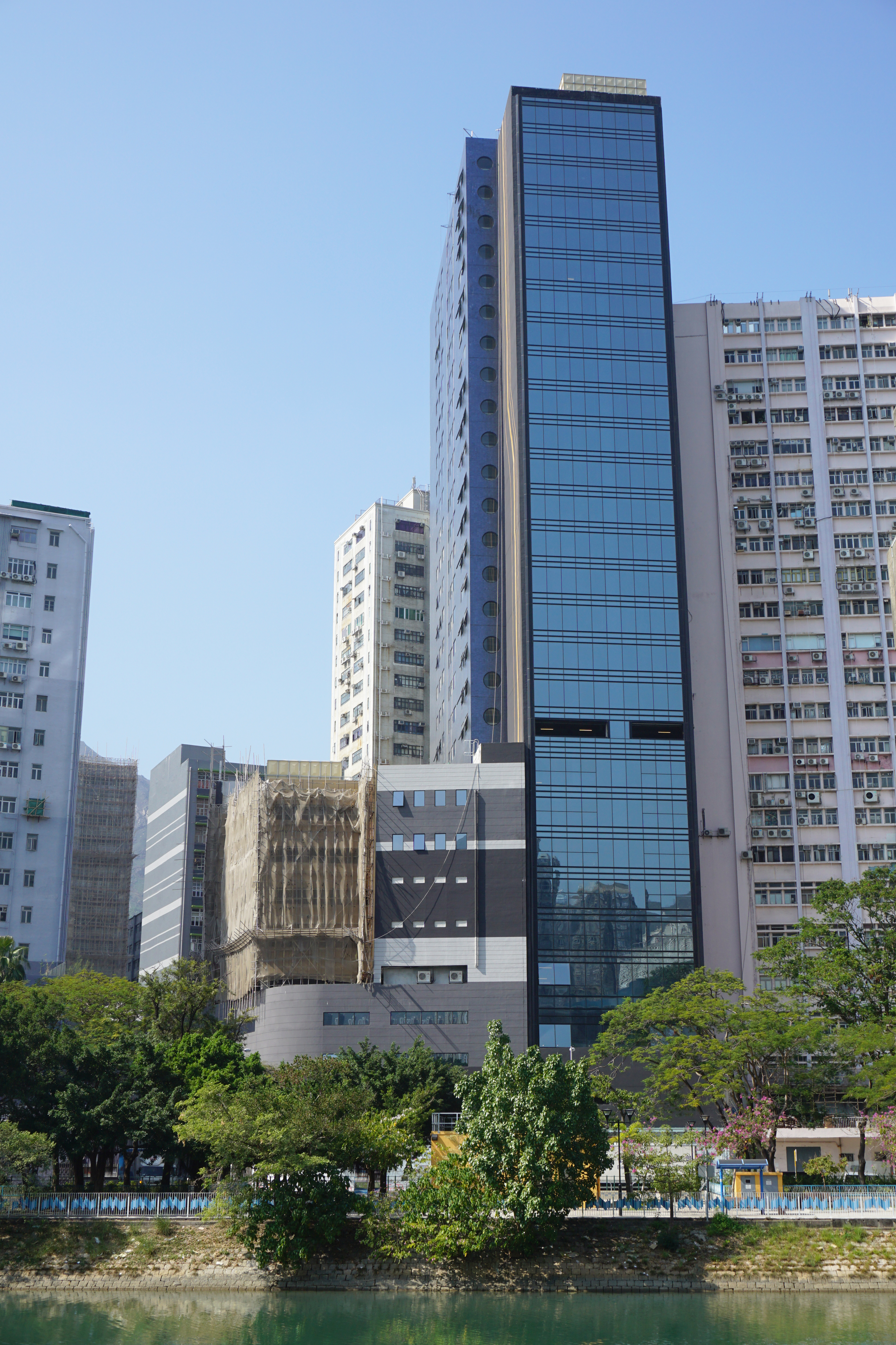 One Vista Supreme and One Vista Summit in Tuen Mun, Hong Kong.